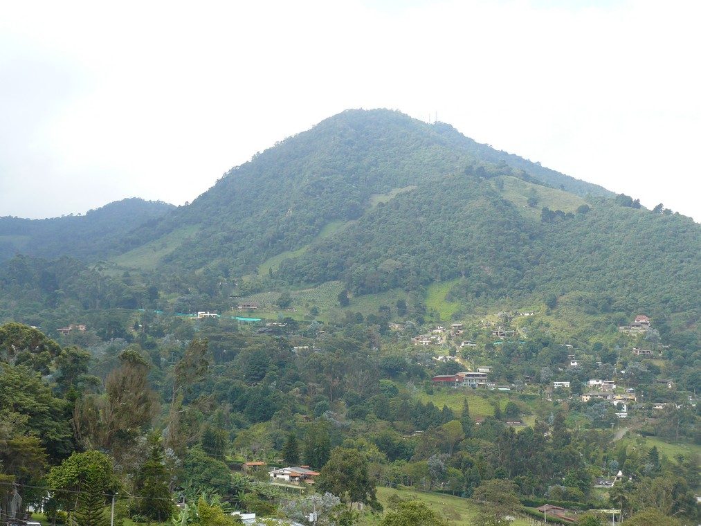 Photo of Dapa, Colombia